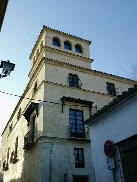 Purullena Palace, in El Puerto de Santa María, Spain.